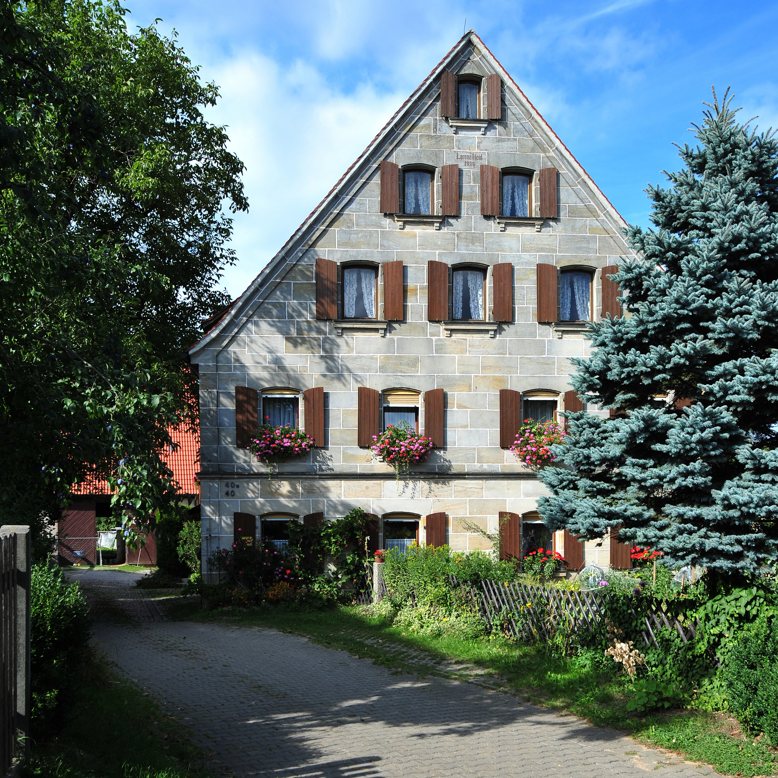 Großgeschaidt 40, Heroldsberg This is a photograph of an architectural monument.